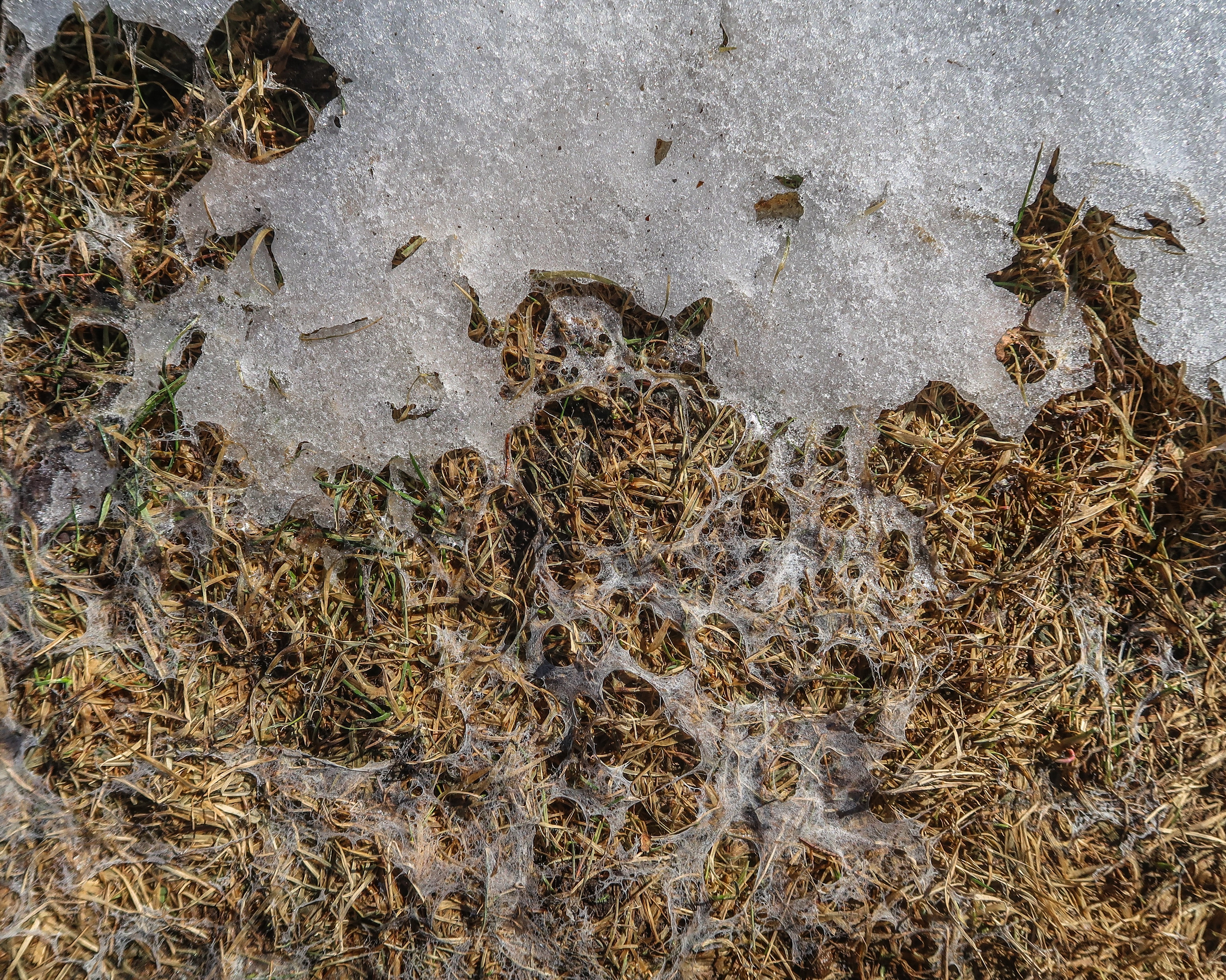 Snow and Monographella nivalis on turf in early spring (Finland).